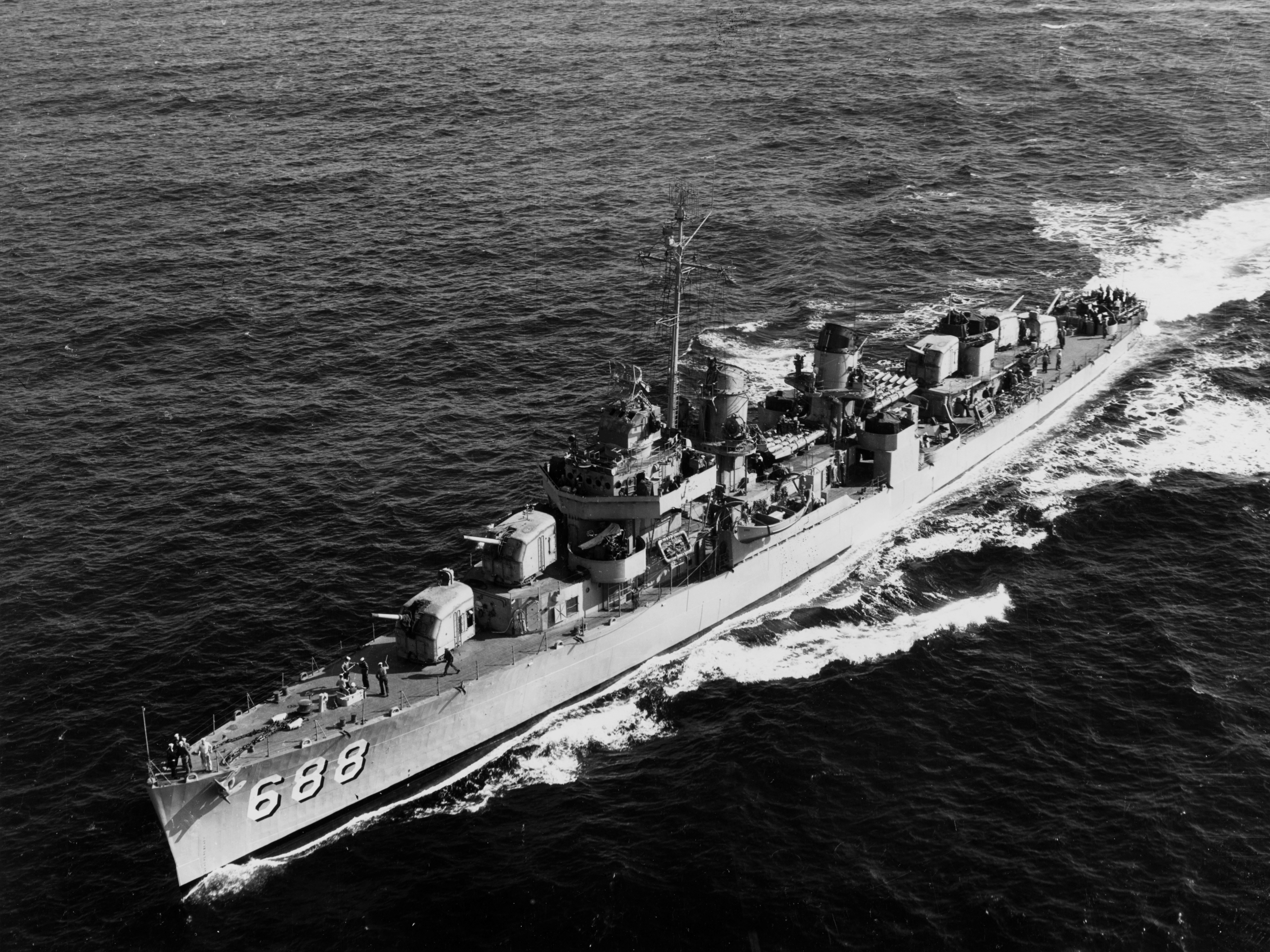 The U.S. Navy destroyer USS Remey (DD-688) underway at sea, probably in late 1951 or early 1952, soon after she was recommissioned on 14 November 1951 during the Korean War build-up. Note that she still has a pole mast, World War II era radars, all ten 53.3 cm (21 in) torpedo tubes, twin 40 mm gun mounts just forward of her bridge and 20 mm guns on her fantail.